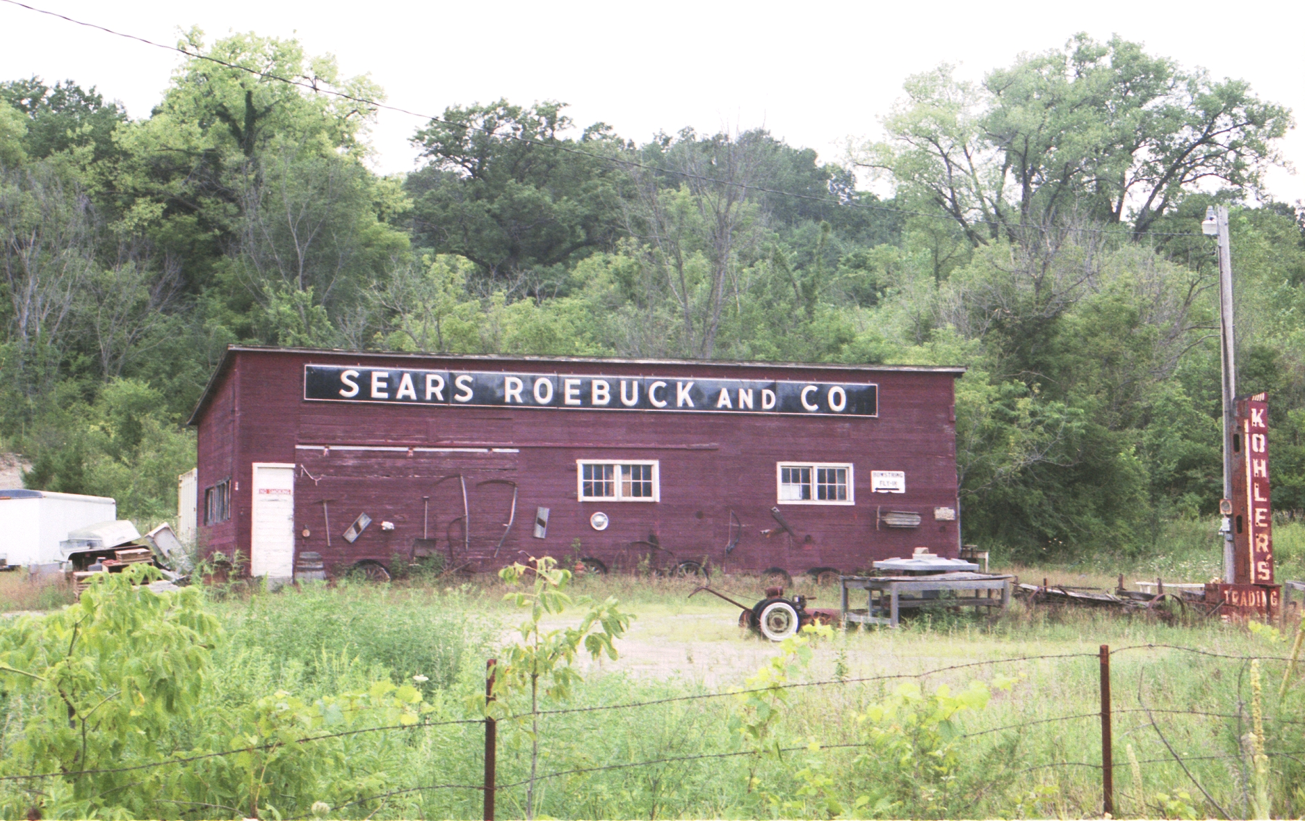 A structure in Galena, Illinois with old Sears signage.